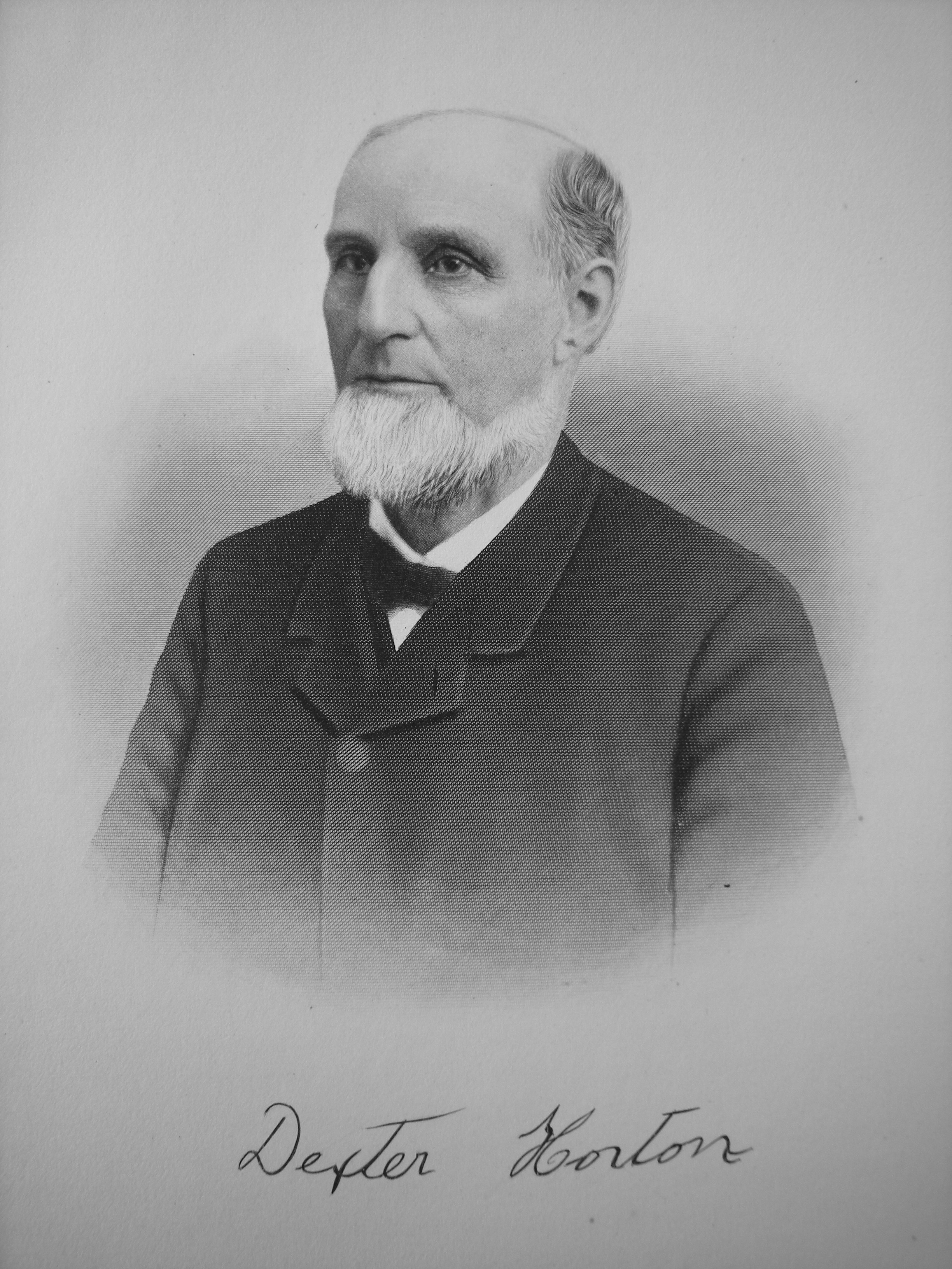 19th century Seattle banker Dexter Horton.